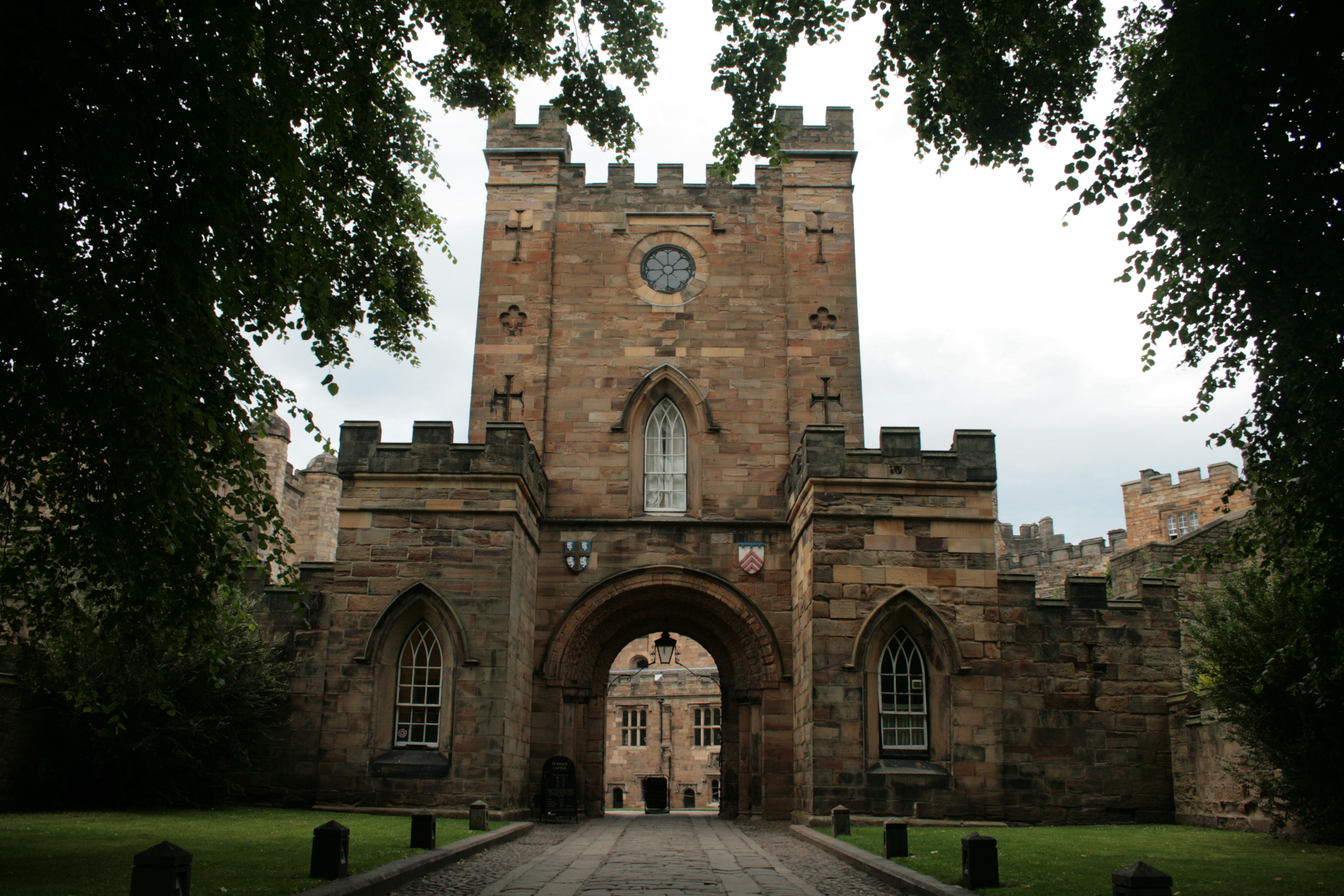 Durham University castle entrance